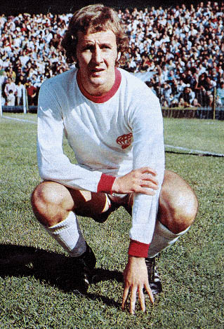 Carlos Babington during his tenure on C.A. Huracán of Argentina.